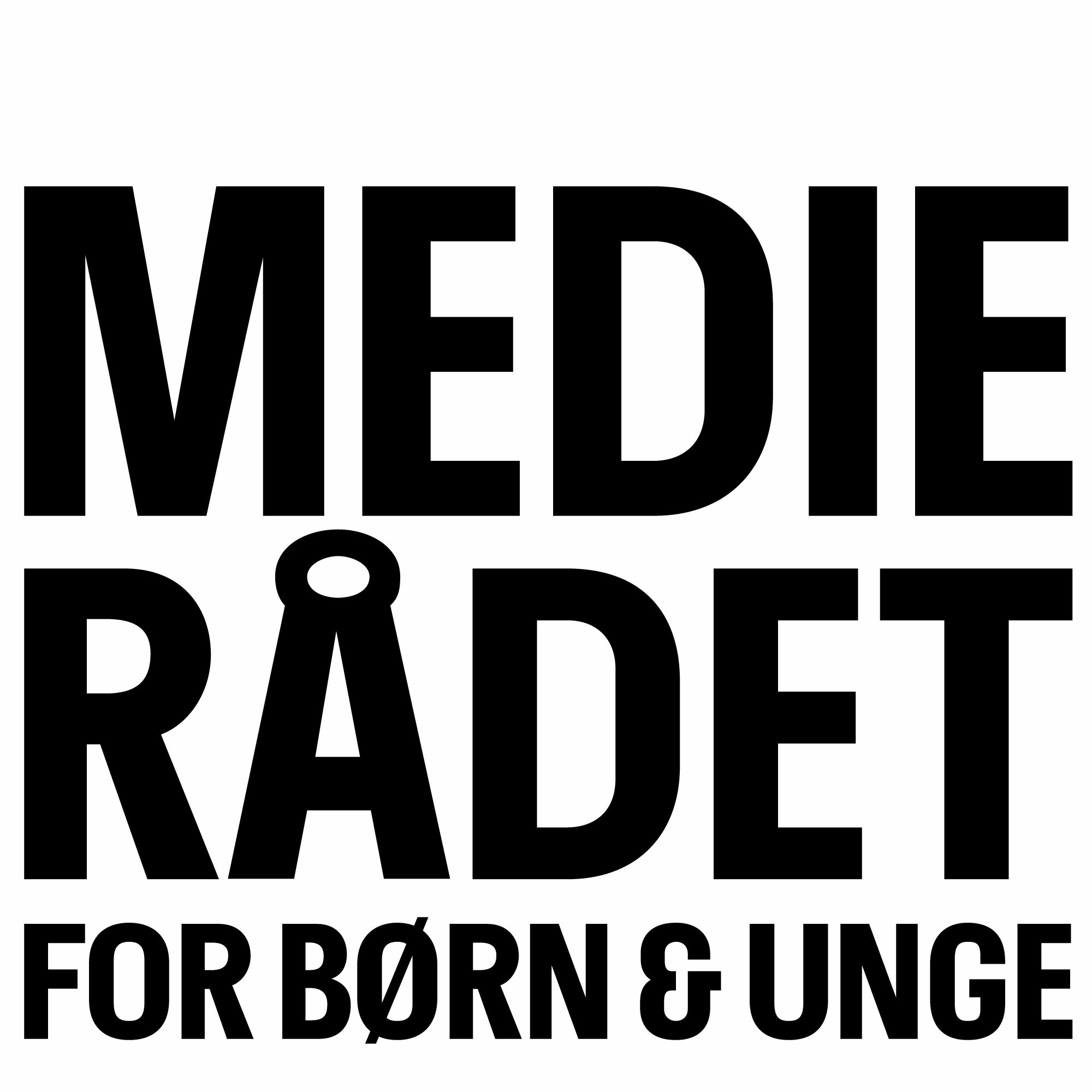 Logo of the Danish motion picture rating organisation Medierådet for Børn og Unge